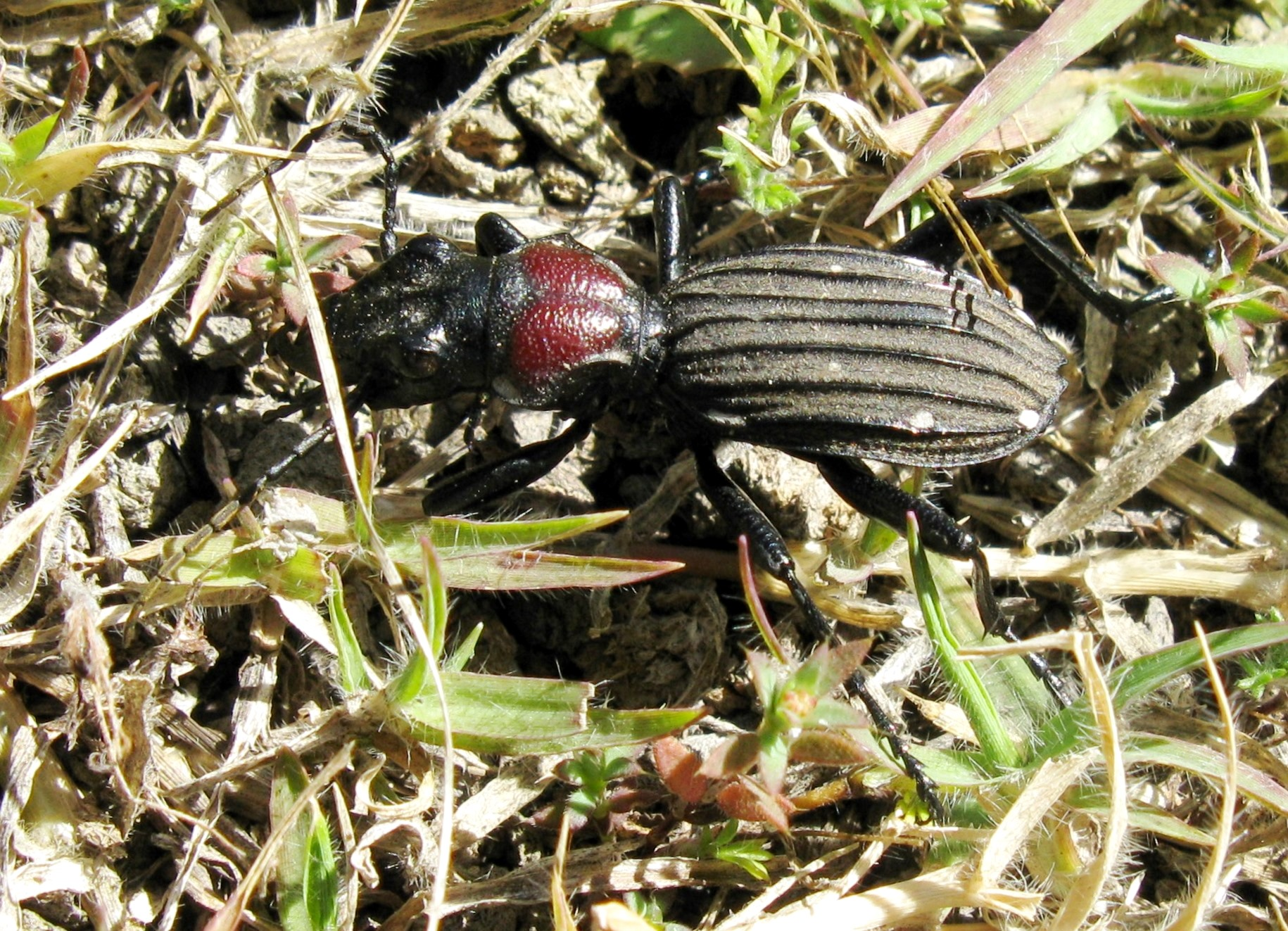 Large, flightless, predatory beetle in family Carabidae (Ground beetles), genus Anthia (subgenus Termophilum). There are several species in this genus of large, diurnal predatory beetles. They are notorious for squirting acrid fluid into one's eyes. Google Earth coordinates=-33.777 23.087. About 20 km south of Uniondale, South Africa